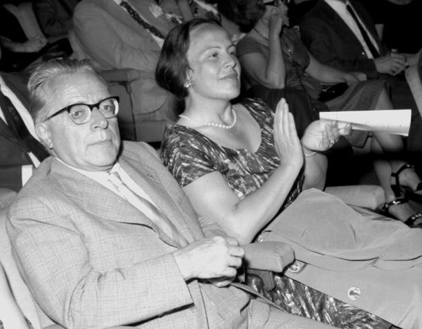 Togliatti and Nilde Iotti at communist congress